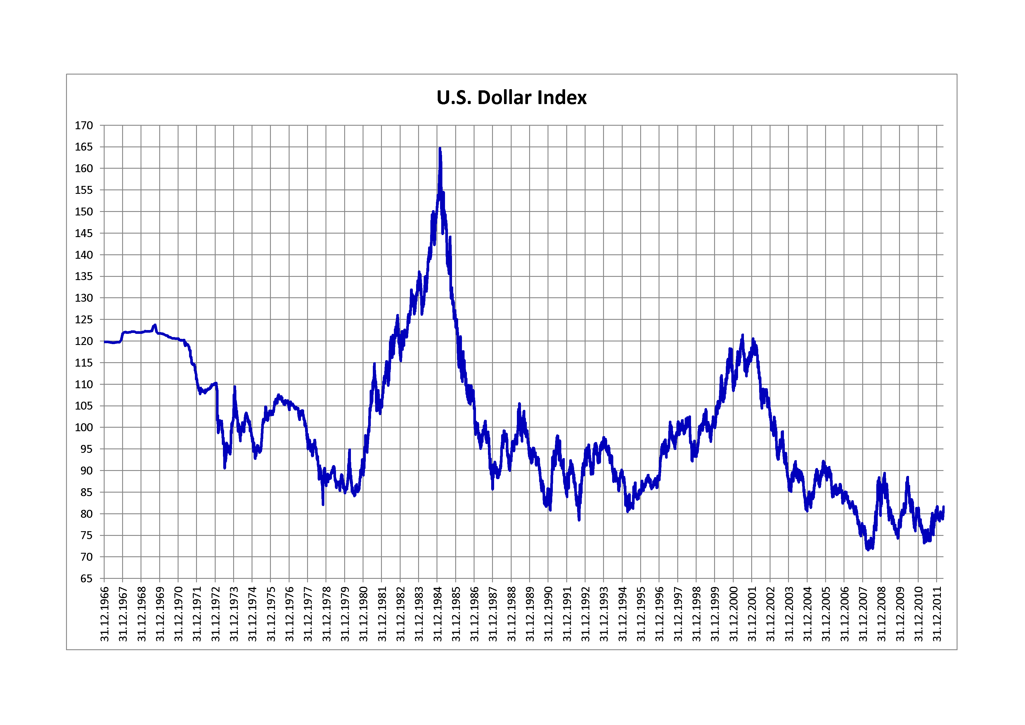 U.S. Dollar Index from December 1966 to May 2012 (daily closings)